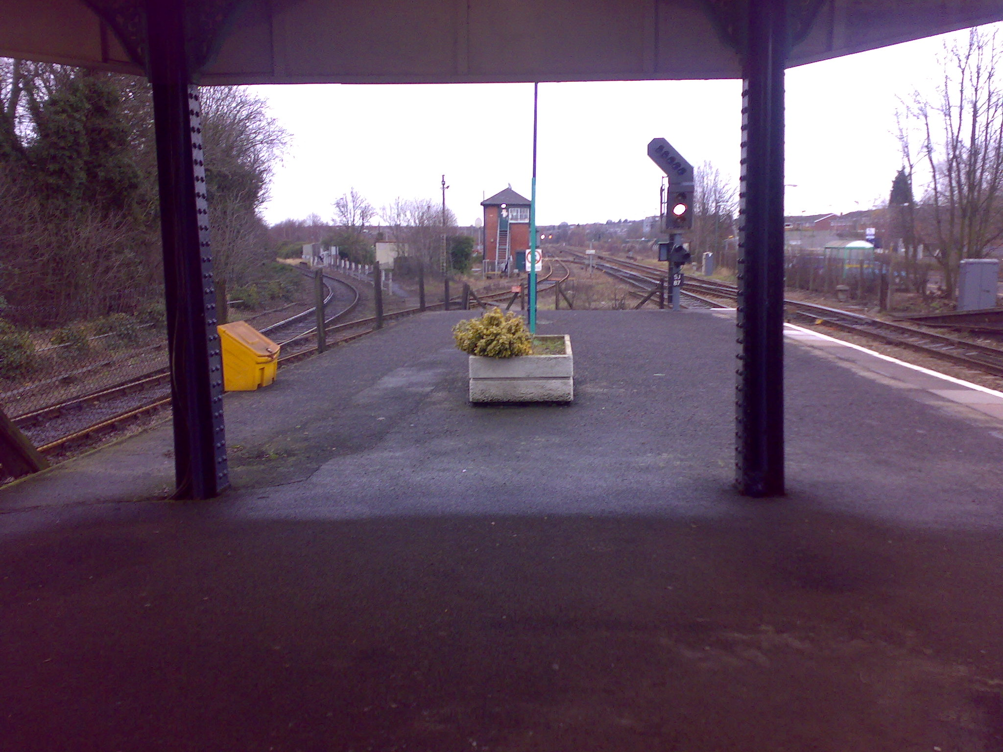 A shot looking from under the canopy of platforms 1 and 2 at Stourbridge Junction railway station. The Stourbridge Town Branch Line can be seen peeling away to the left whilst the main line heads towards Stourbridge North Junction. In the middle of these can be seen Stourbridge Middle Signal Box.